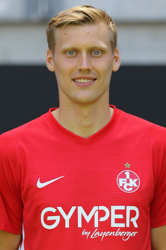 Andri Runar Bjarnason (Nr. 19)